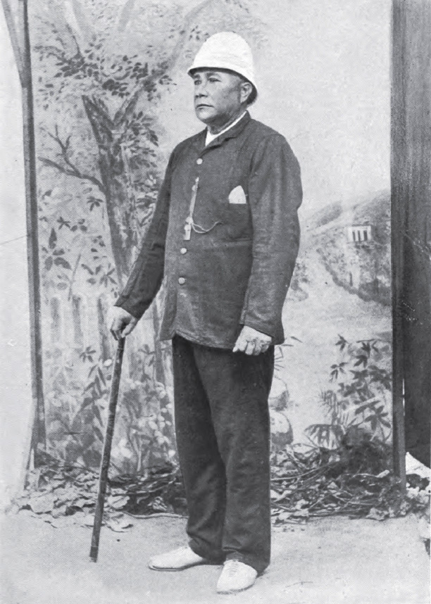 Ngamaru Rongotini, Ariki of Atiu (Cook Islands). Caption : Prince Ngamaru, late husband of Queen Makea.